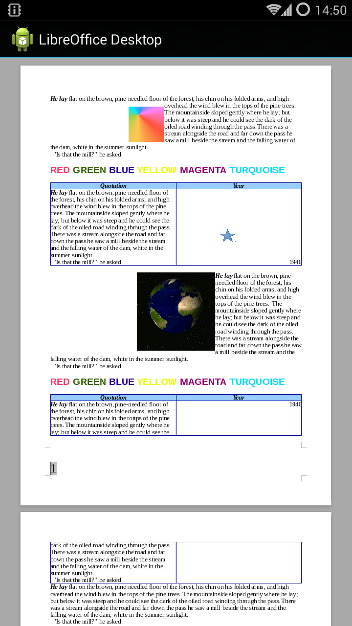 LibreOfficeKit tiled rendering implementation in LibreOffice for Android.